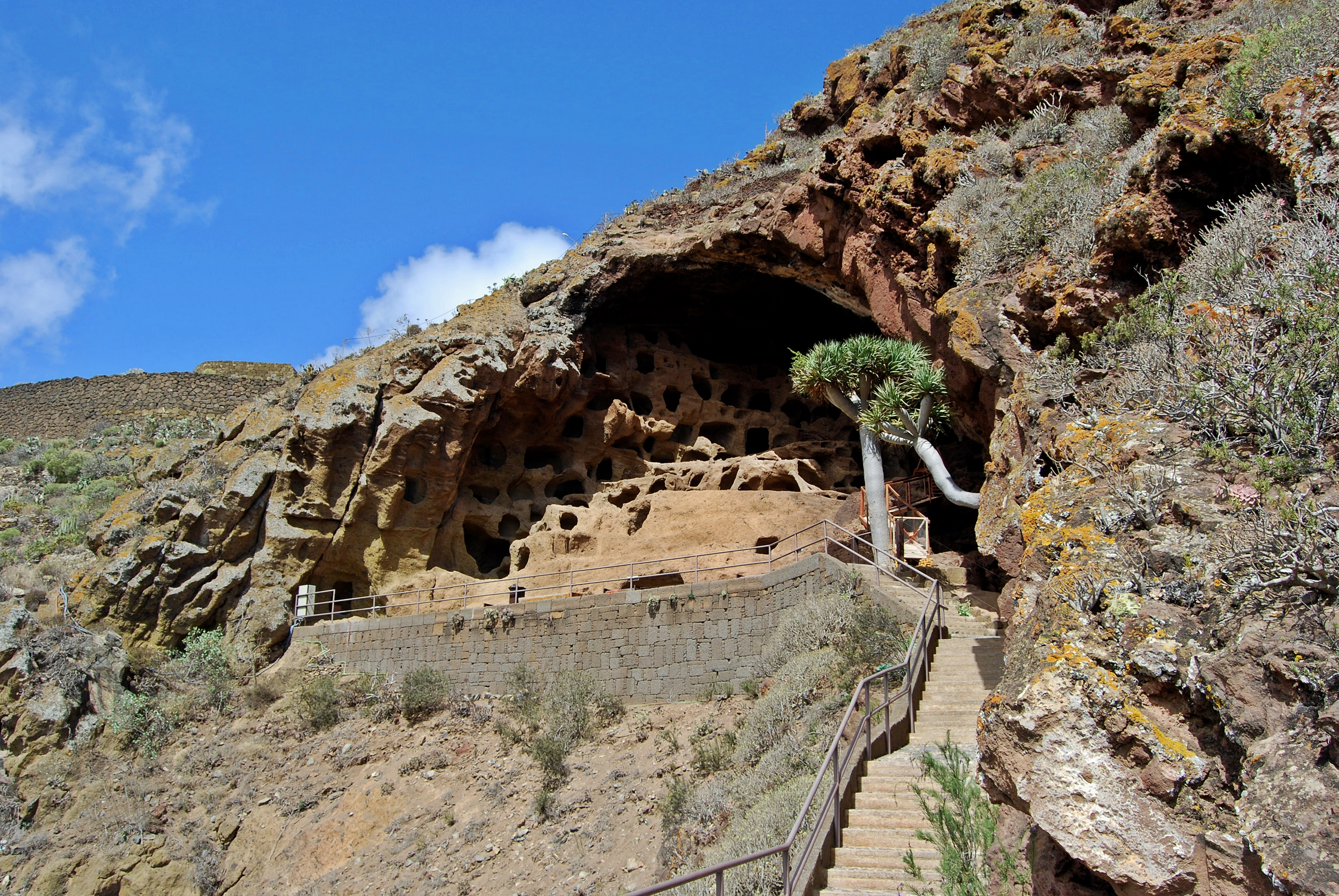 View of Cenobio de Valerón, archaeological site, Santa María de Guía, Gran Canaria.